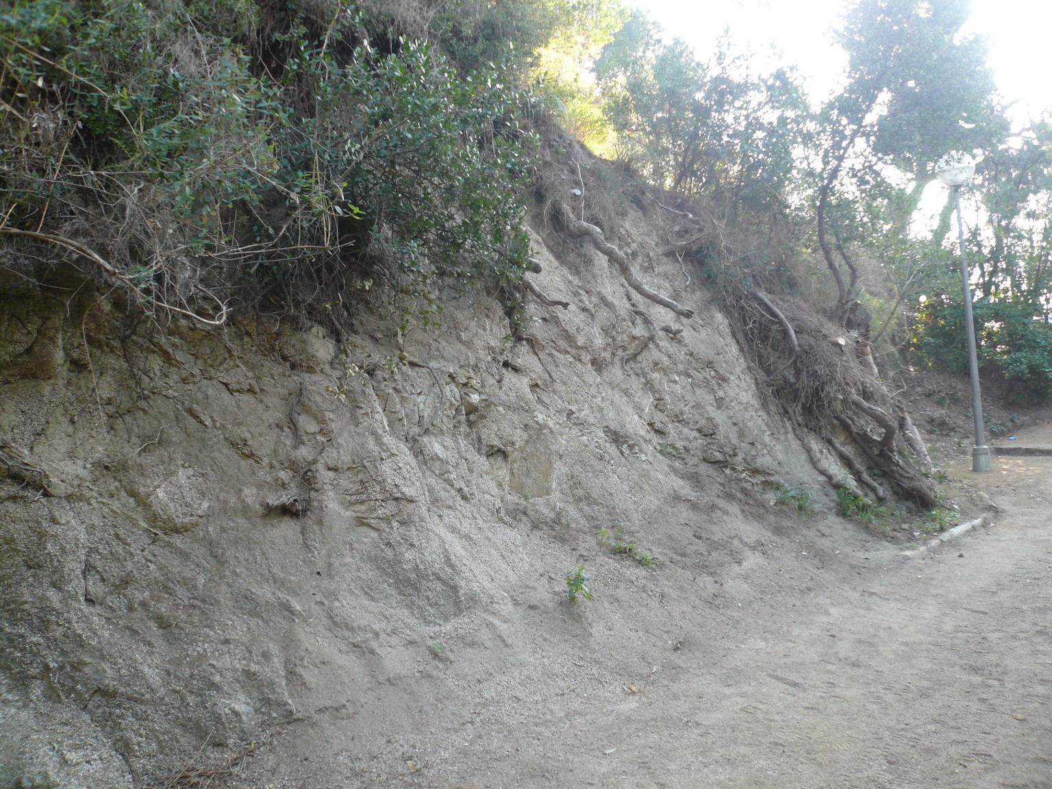 granitic rock in Barcelona